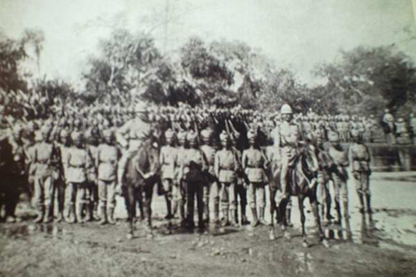 Old India Photos - Tatya Tope and troops, 1857